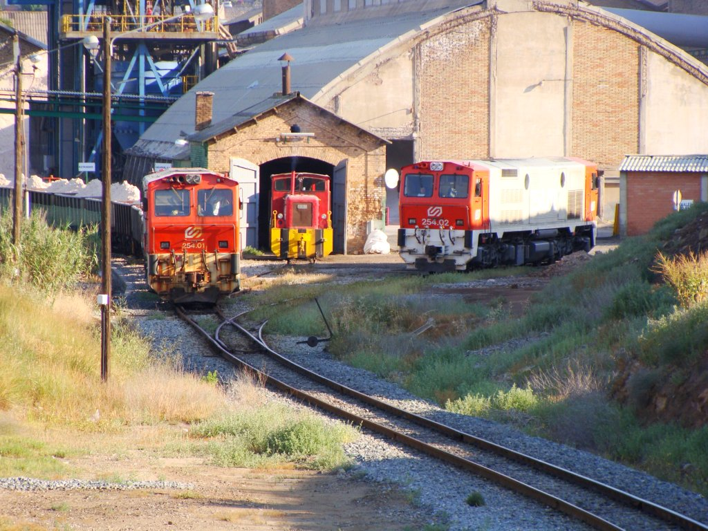 Diesel electric freight locomotive FGC 254.